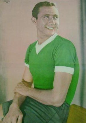 Image of Jose Della Torre cropped from a public domain image by User:King of the North East